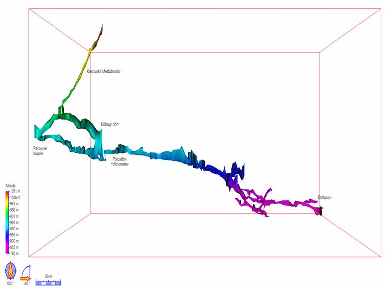 harta